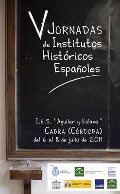 Poster of the 5th Meeting of the Spanish Historic High Schools. Cabra (Córdoba), 2011.